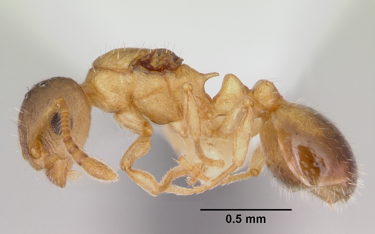 Profile view of ant Temnothorax minutissimus specimen casent0172598.